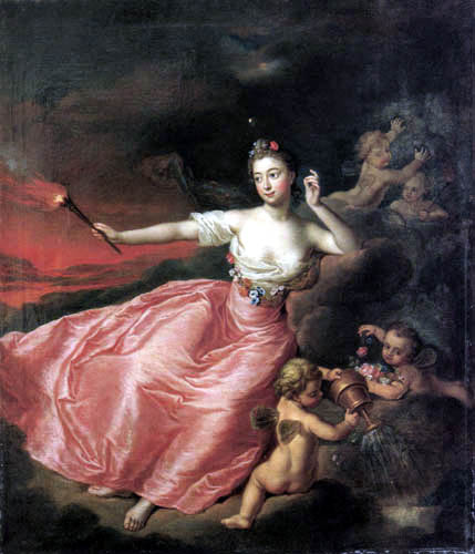 Portrait of a Woman as Aurora